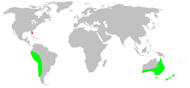 Amphinectidae habitat distribution, drawn after Platnick: World Spider Catalog 7.0. This is not at all a precise rendering of the distribution! If you have better information, please replace this map, or send me the info, and i will redraw it.